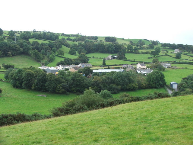 Bryn Saith Marchog, Denbighshire/Sir Ddinbych, Wales. Bryn S.M. from the Derwen road.